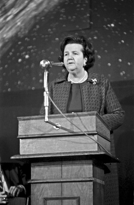 Louise Day Hicks, US Representative from Massachusetts